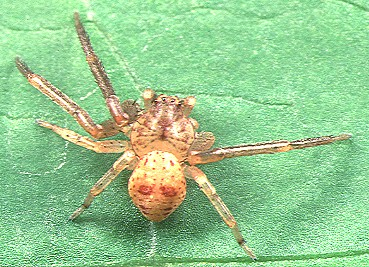 male Pharta brevipalpus from Okinawa.